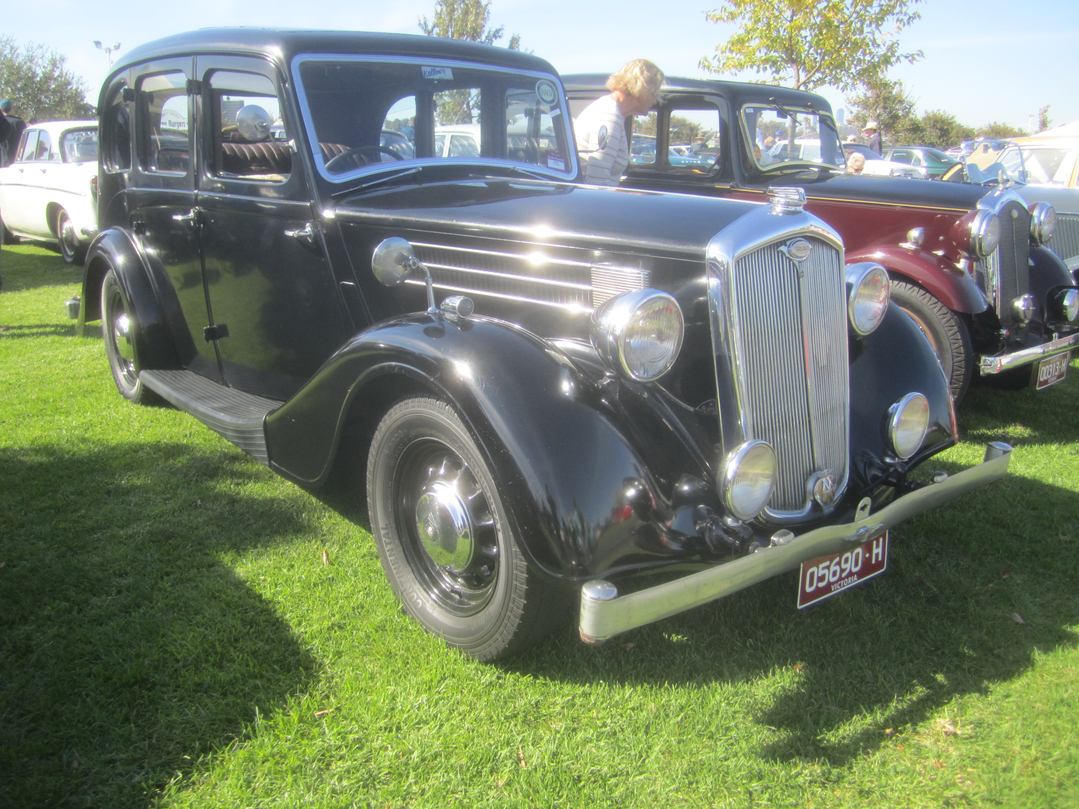 Wolseley 14/60 1939 Wolseley Ten Saloon 1939The 1st Wolseley Ten was the 10/40 (1936-37) like the Morris Ten had 1292 cc engine, the Wolseley differs from its sister car the Morris Ten in having SU carbs, 4 speed box and a bustle back to increase boot (trunk) space The update Wolseley Ten was built in 1939 and 1945 to 1948 It was an up-market counterpart of the Morris Ten Series M, and had the same 1140cc overhead-valve engine but carried it in a traditional separate chassis unlike the Morris, which was its maker's first unitary construction design